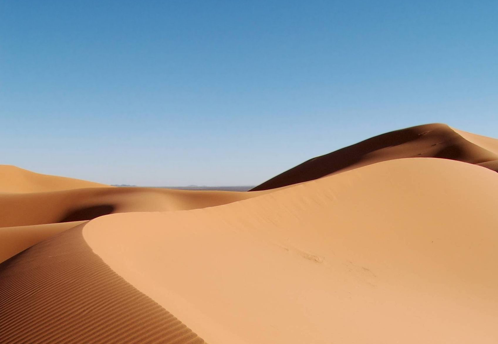 Erg Chebbi, Morocco, Africa.